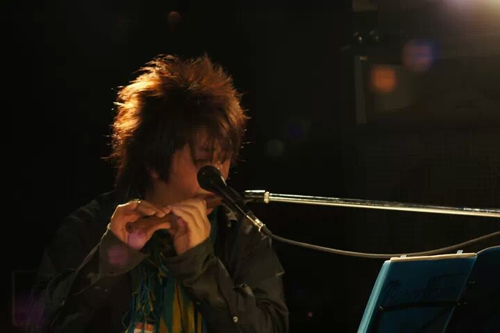 Bomb Tommy